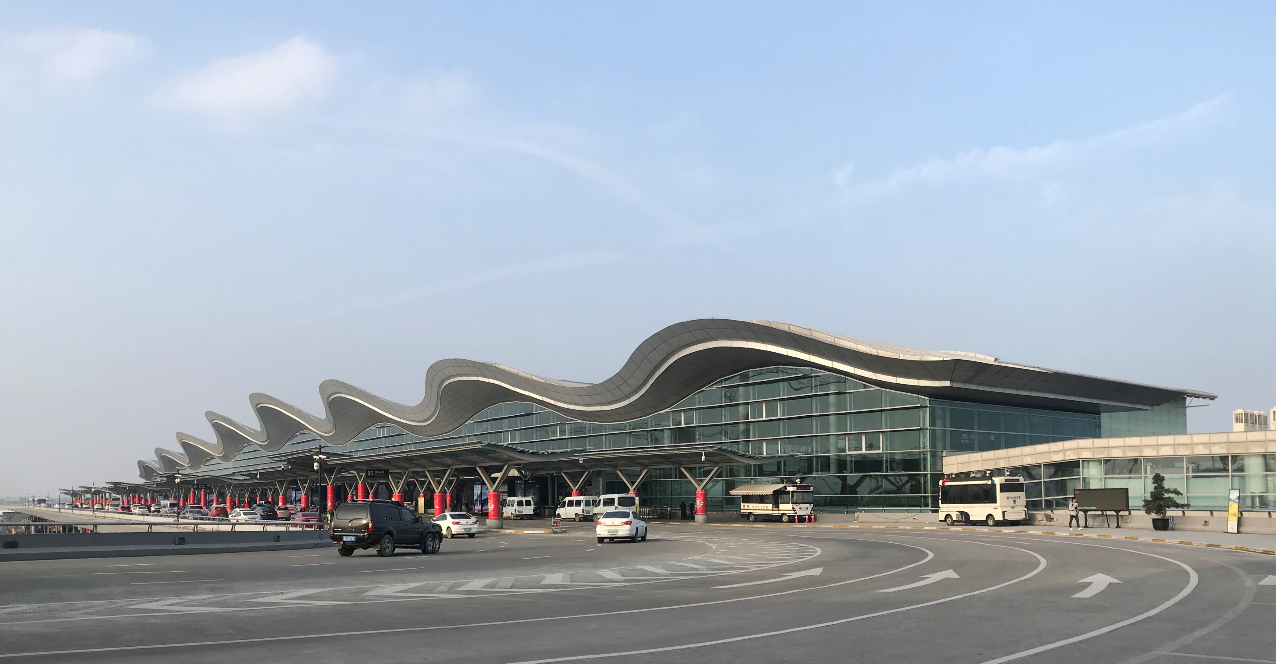 After renovation.